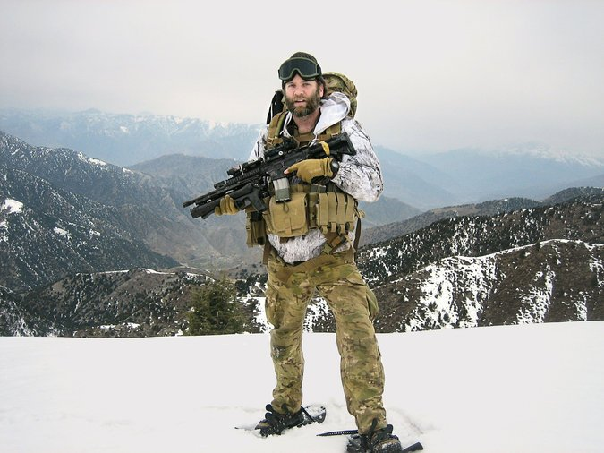 Former Nirvana guitarist Jason Everman, serving with the US Army Special Forces in Afghanistan.